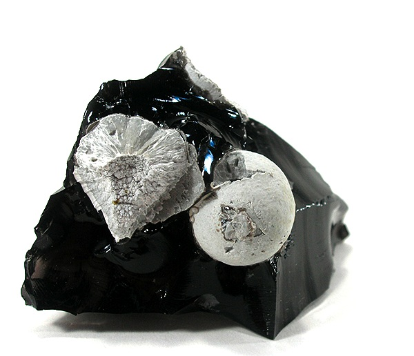 Cristobalite, Fayalite Locality: Canyon Butte occurrence (Couger Butte), Canyon Butte, Siskiyou County, California, USA (Locality at ) Obsidian(volcanic glass) cools too quickly, to crystallize. Thus, it is unusual to see minerals attached. The spheres of high temperature cristobalite(SiO2) are actually the result of devitrification, or loss of silica from the obsidian. Most unusual. 5.9 x 3.8 x 3.8 cm